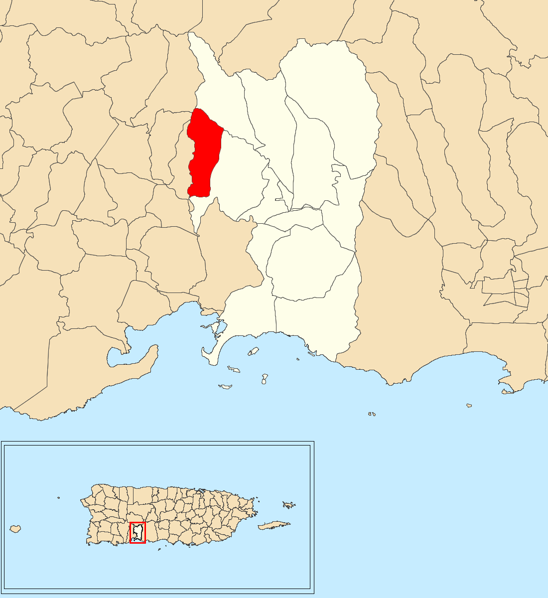 Macaná, Peñuelas, Puerto Rico locator map